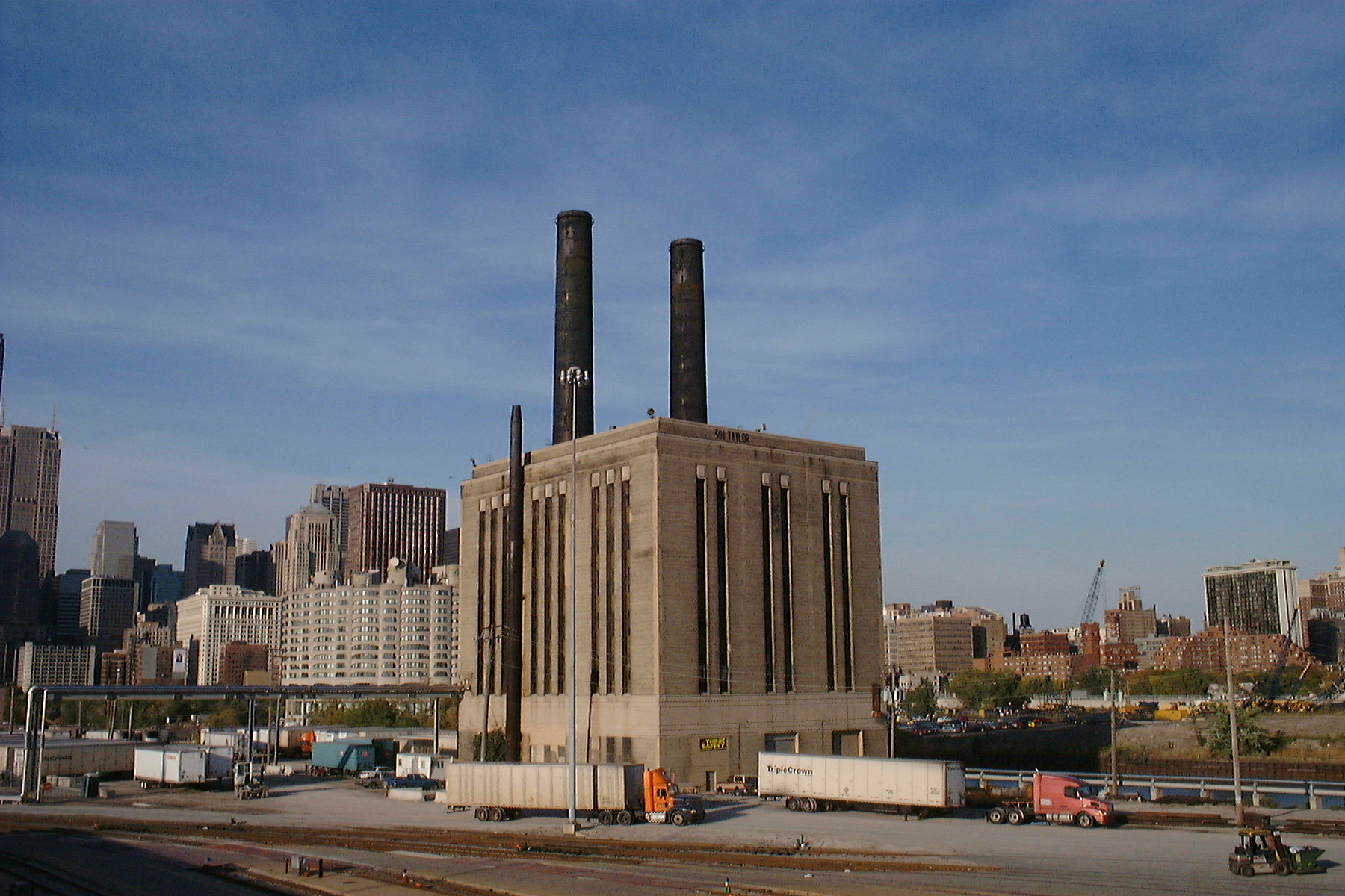 A Chicago power station on a clear day.